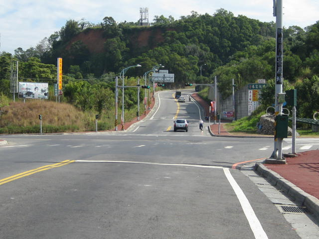 Yinhangshan from the intersection of Provincial Highway No. 74A and County Highway No.139 in Changhua County.